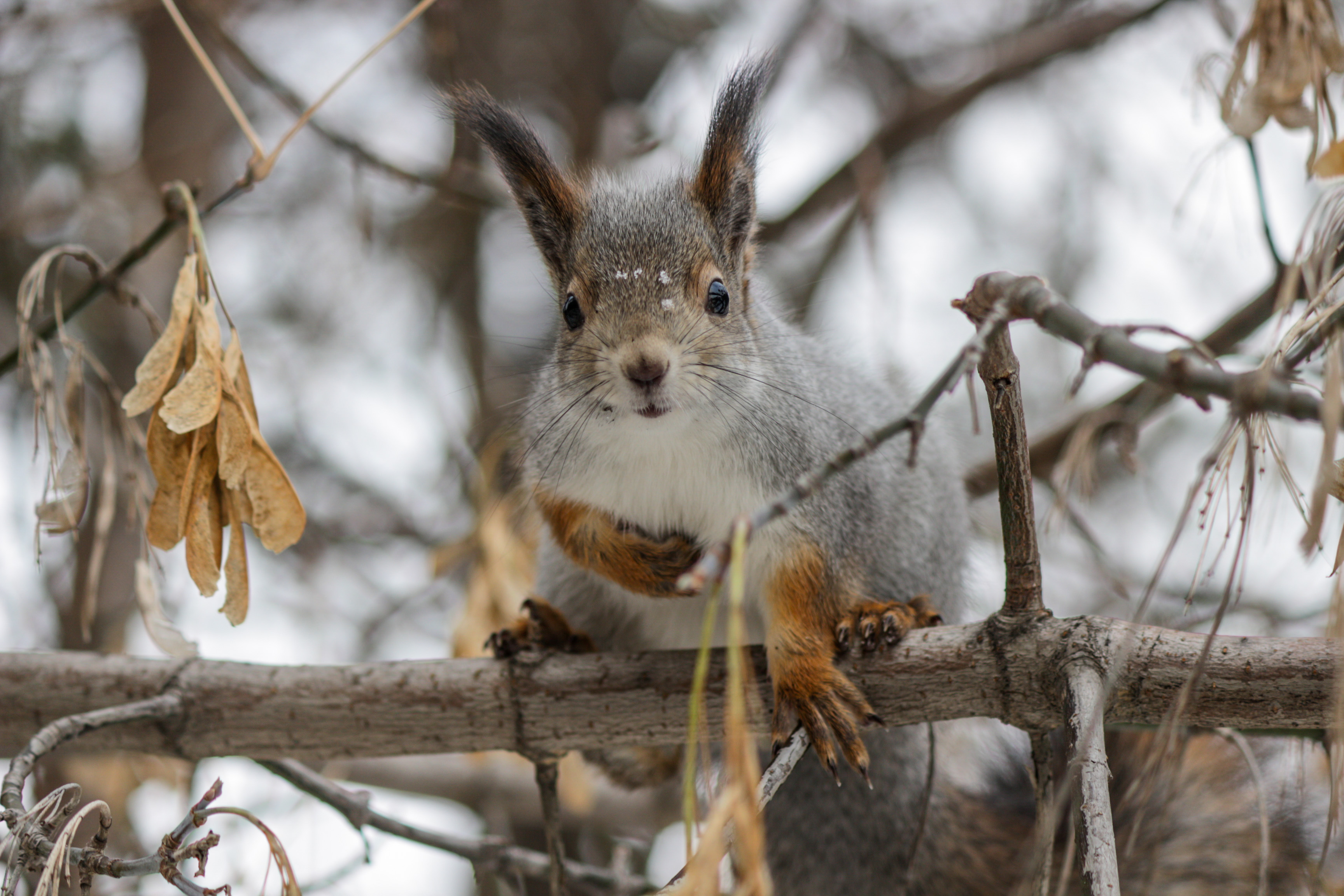 Red squirrel in the Urals region, grey winter coat